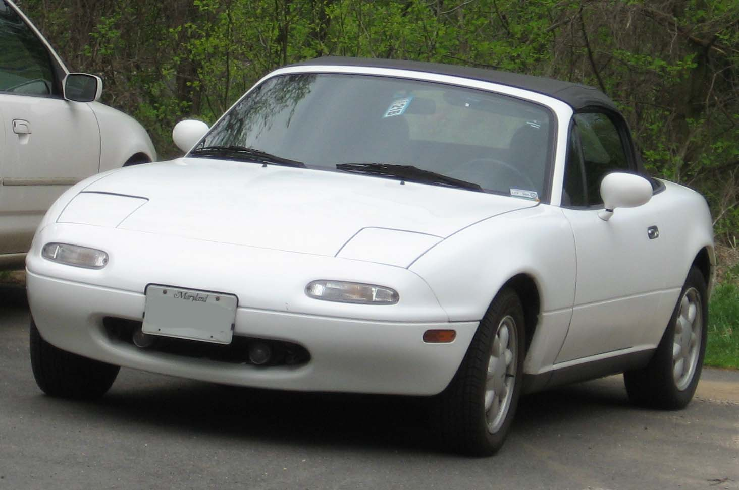 Mazda Miata photographed in USA.